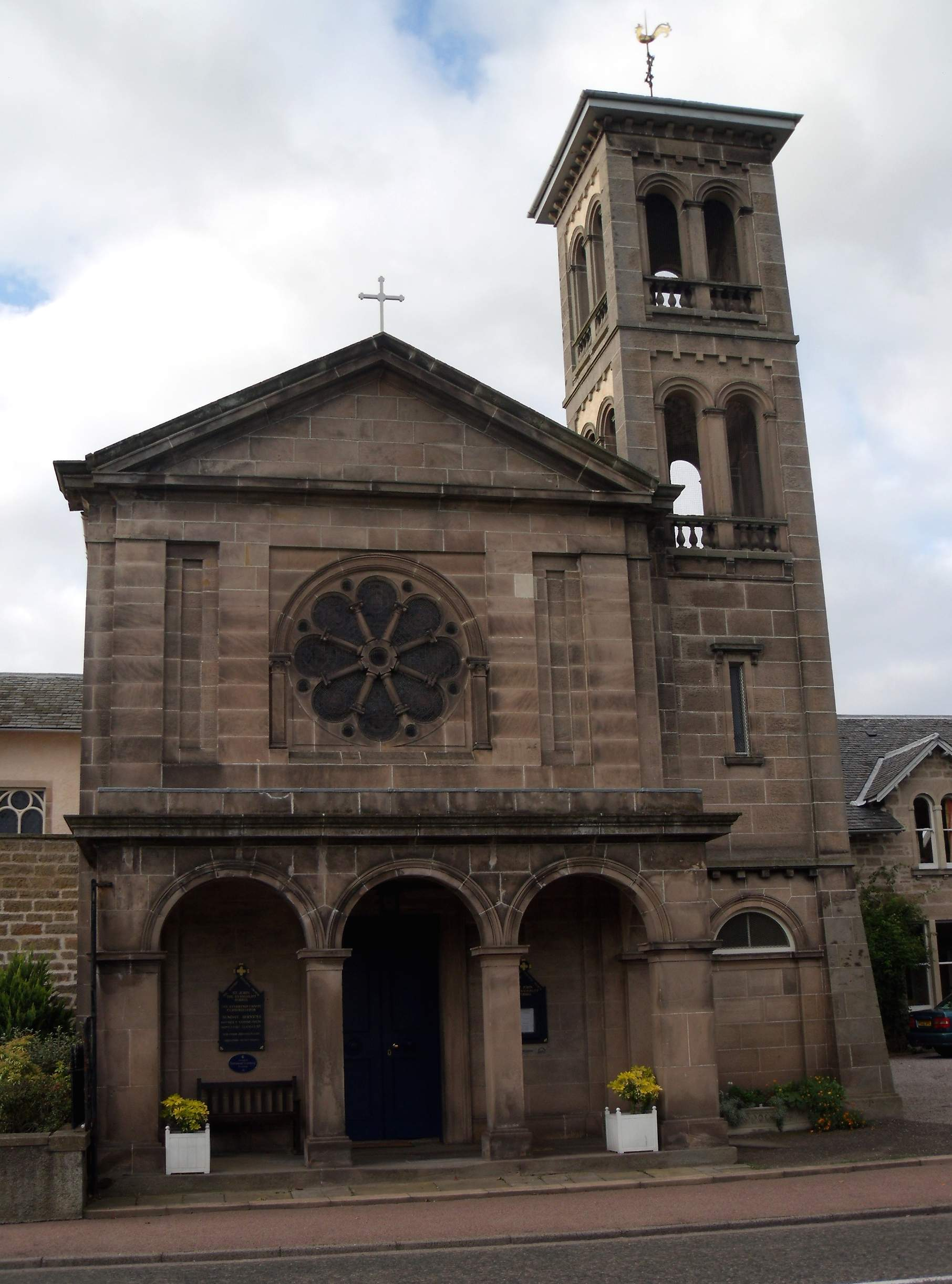 Directly opposite the park is St John the Evangelist Episcopal Church, which also does its bit with floral displays to enhance its already beaturiful exterior.